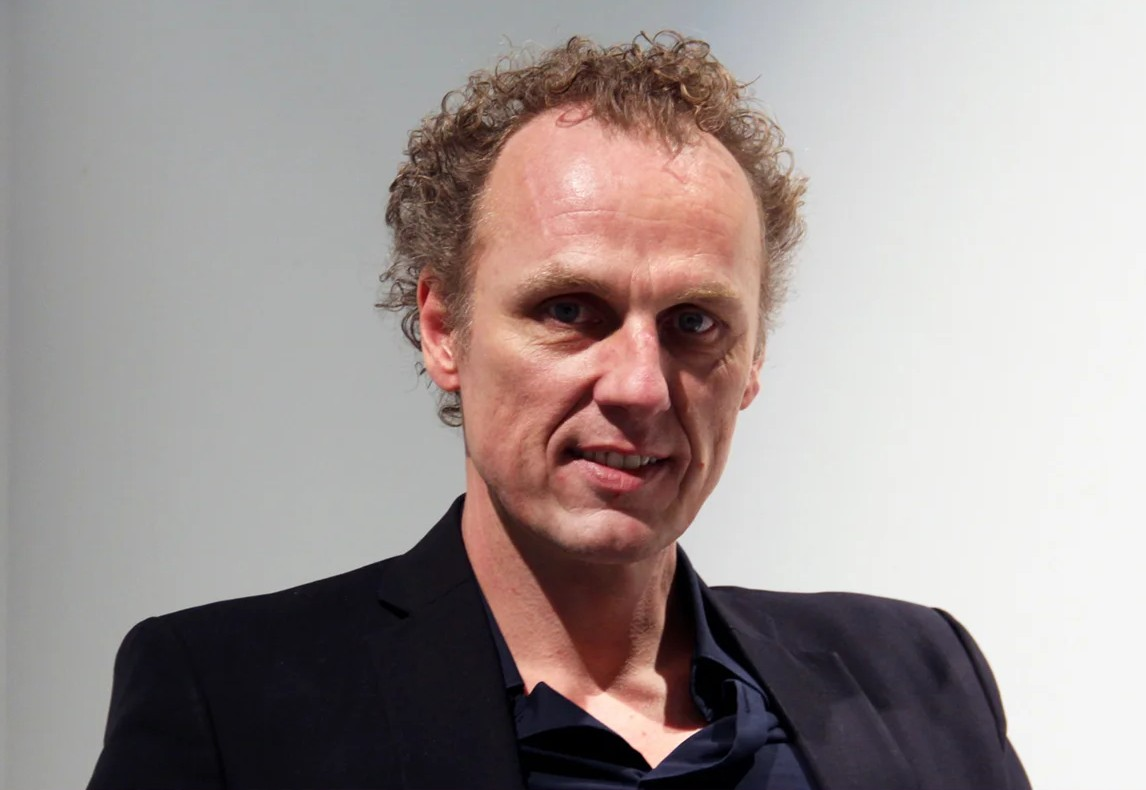 Richard Hutten, 2015